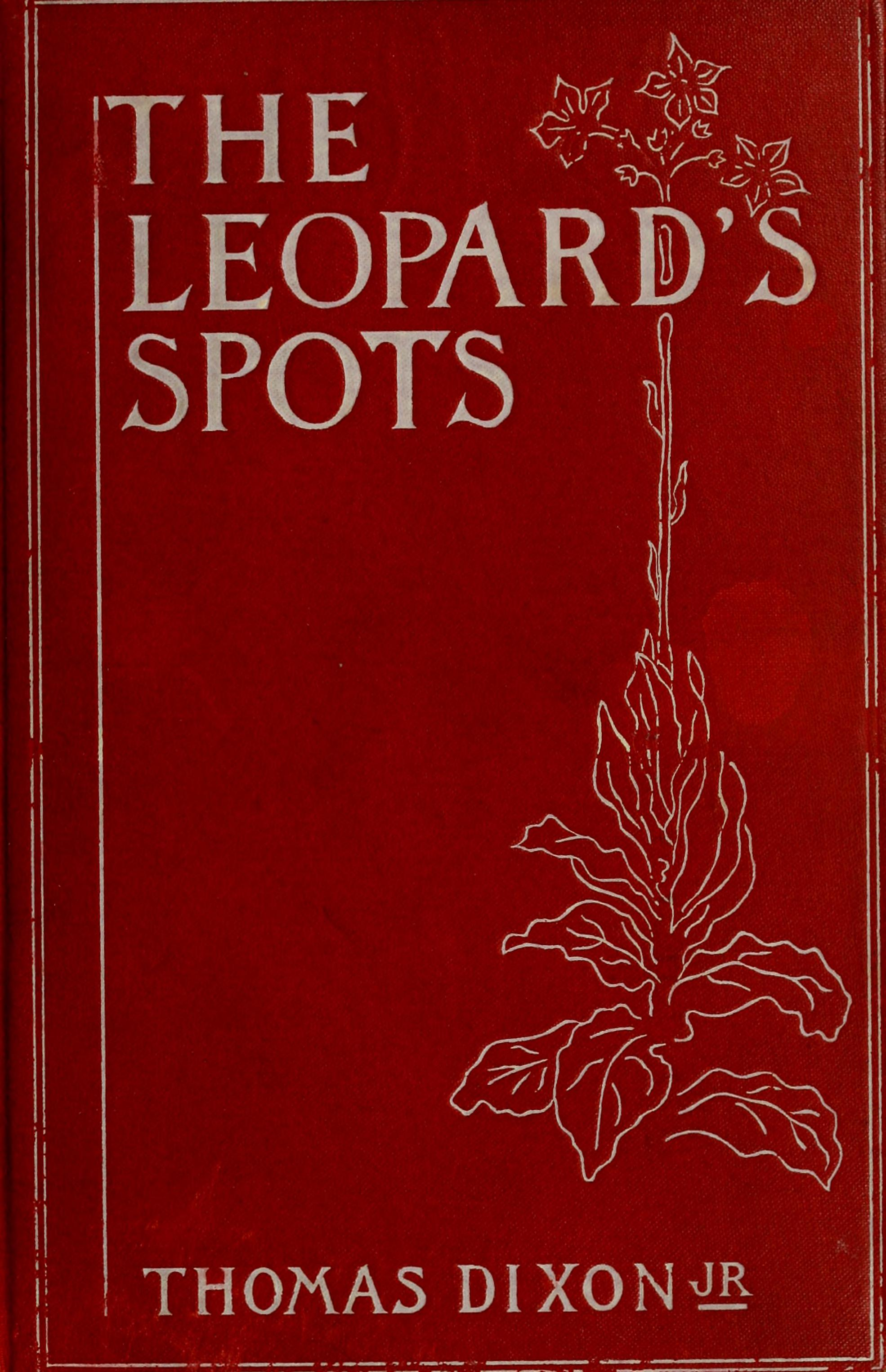 Cover of the 1st edition of The Leopard's Spots by Thomas Dixon Jr